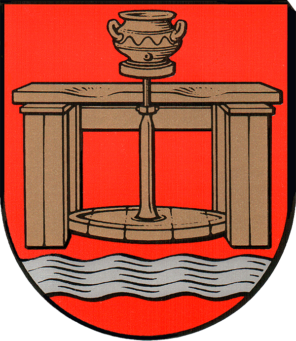 Coats of arms of Oberode, Germany, 2008-01-16